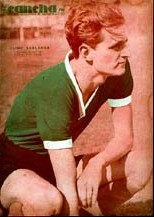 Sarlanga during his time at Ferro Carril Oeste